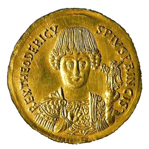 Coin depicting Flavius Theodoricus (Theodoric the Great). Roman Vassal and King of the Ostrogoths. It is only known a single piece of this coin, from the collection of Victor Emmanuel III of Italy, now in Palazzo Massimo, Rome